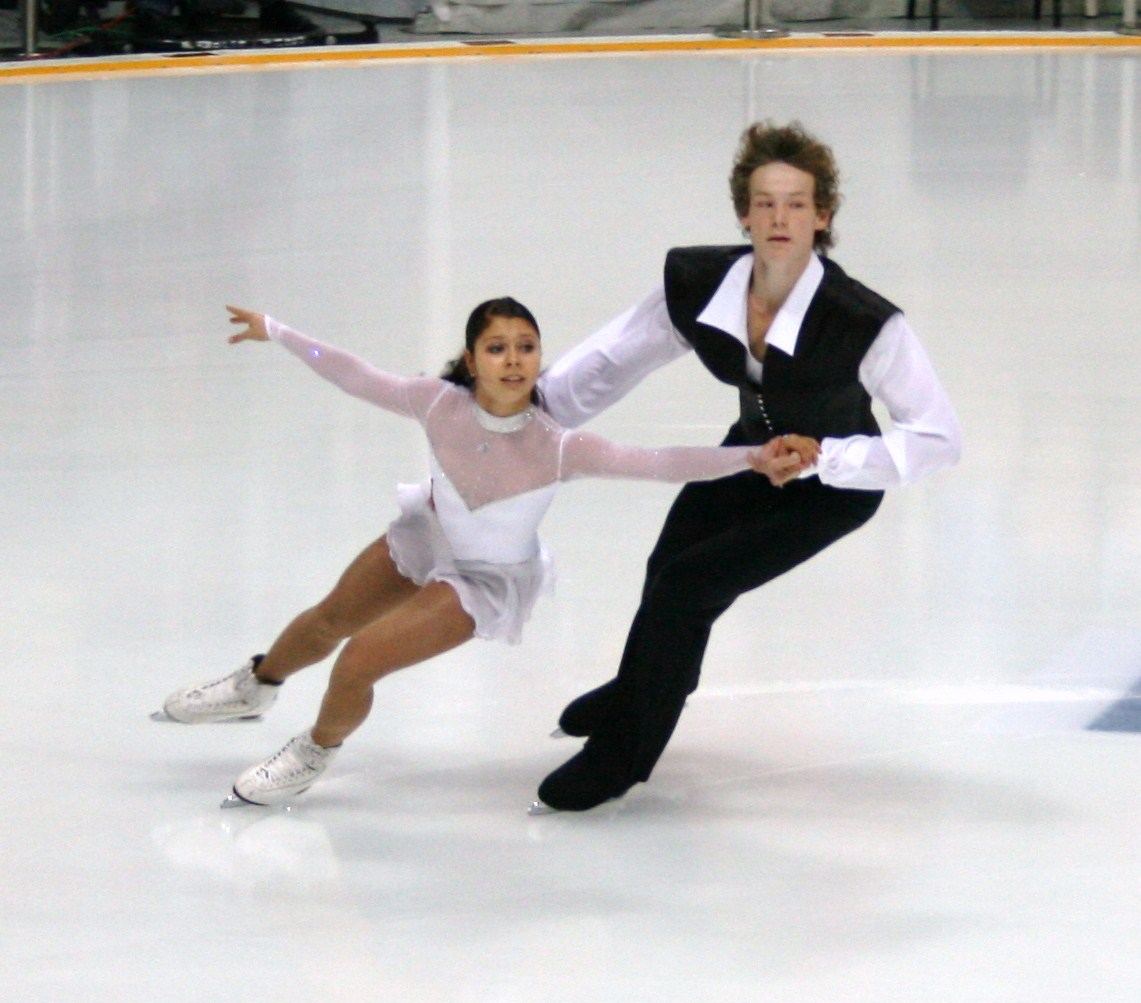 Tatiana Danilova and Andrei Novoselov at the opening ceremony Rostelecom Cup 2009